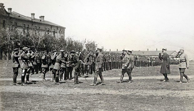 Symon Petlura, Gen. Volodymyr Salsky, Gen. Antoni Listowski, troops of 6th Infantry Division of Ukrainian Army, Polish-Soviet War 1920, April 1920.